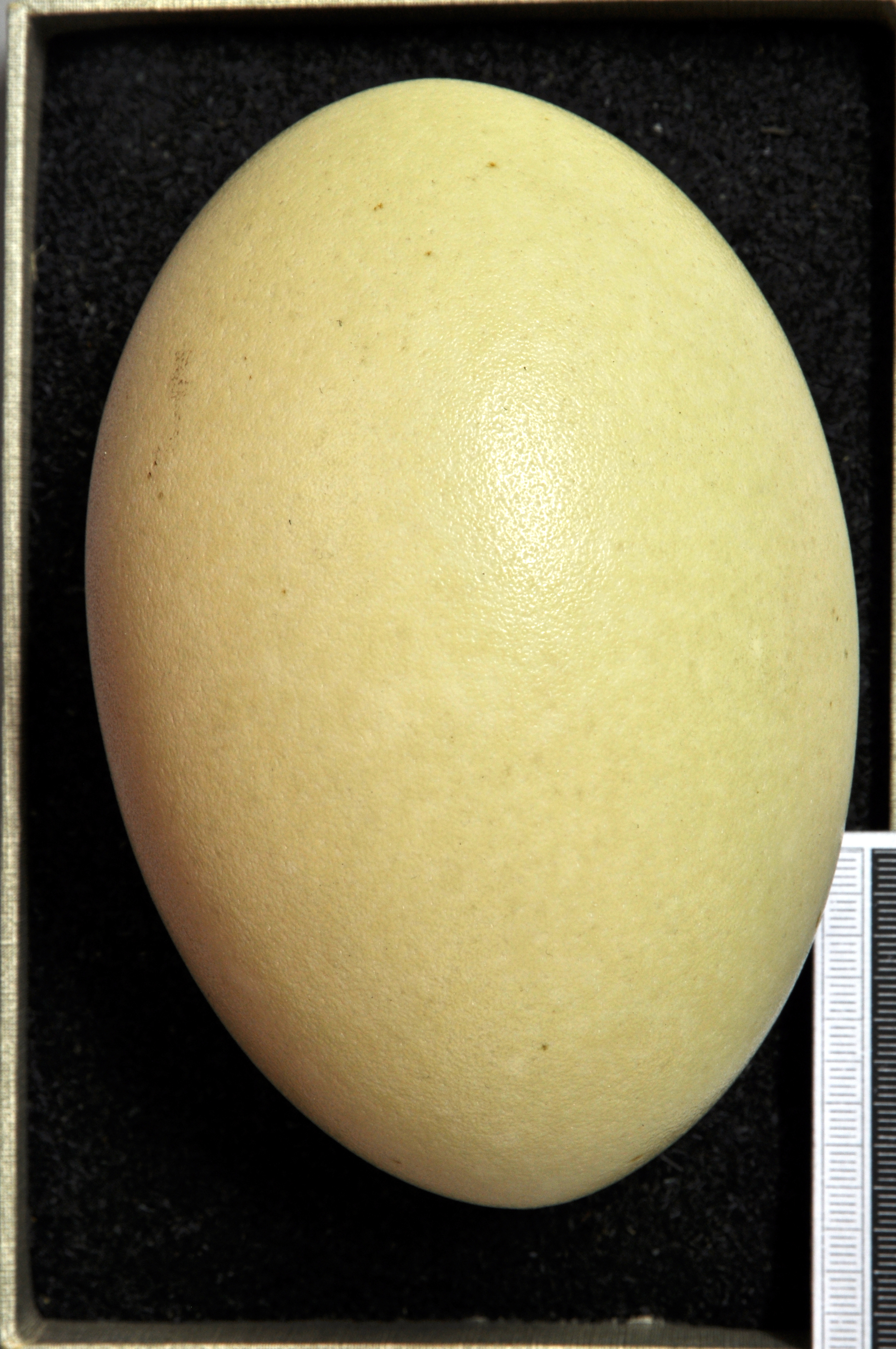 Darwin's rhea Pterocnemia pennata , egg, Coll. Museum Wiesbaden